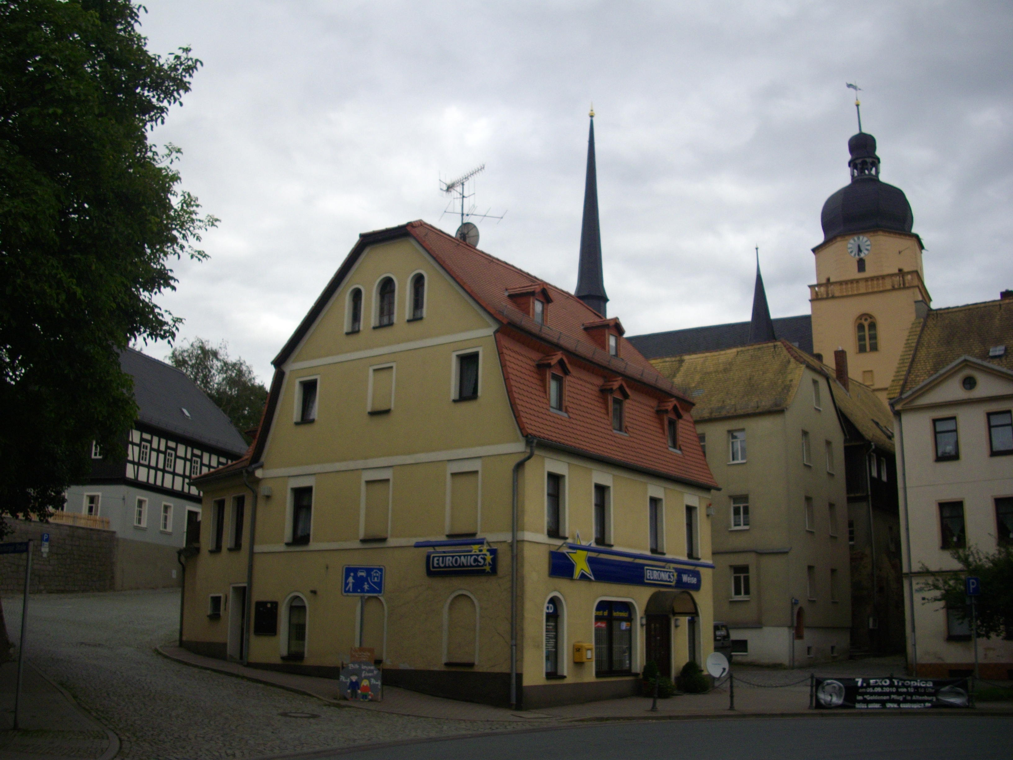 Market place and church in Gößnitz near Altenburg/Thuringia